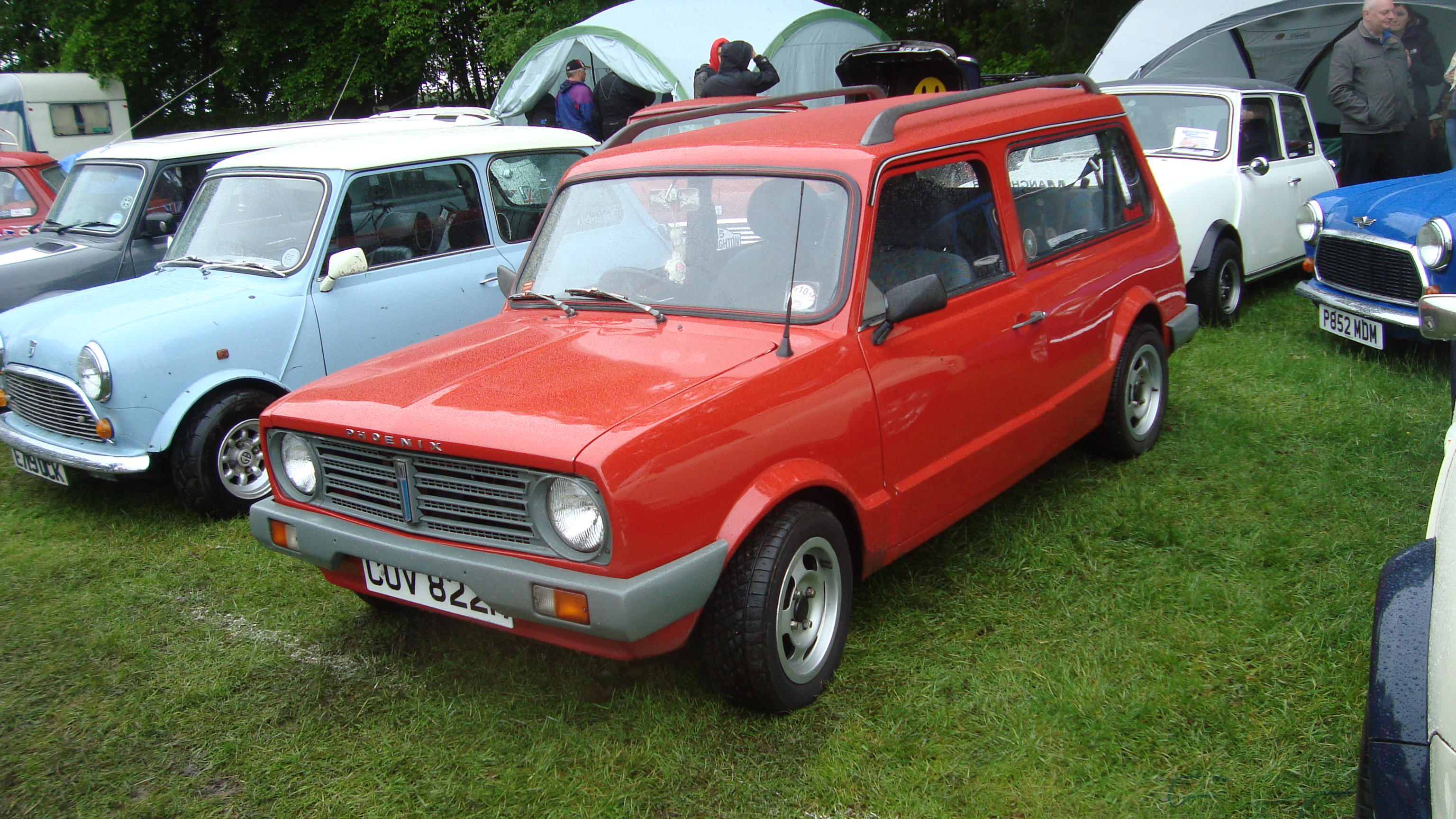 A bizarre little thing!